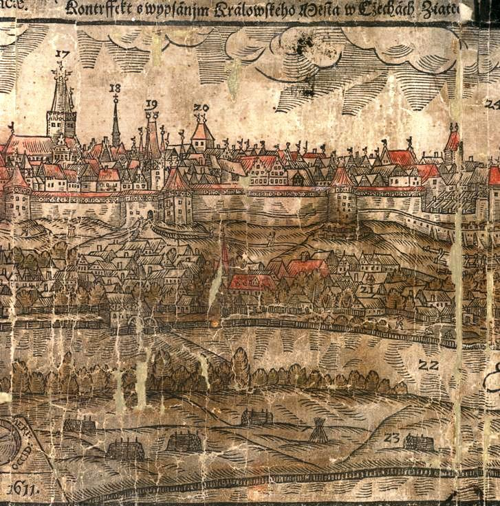 The part of the view of Žatec from 1611 by Johann Willenberg. No 17 townhall, 18 church of St. Cross, 19 Libočanská gate, 20 Mlynářská gate